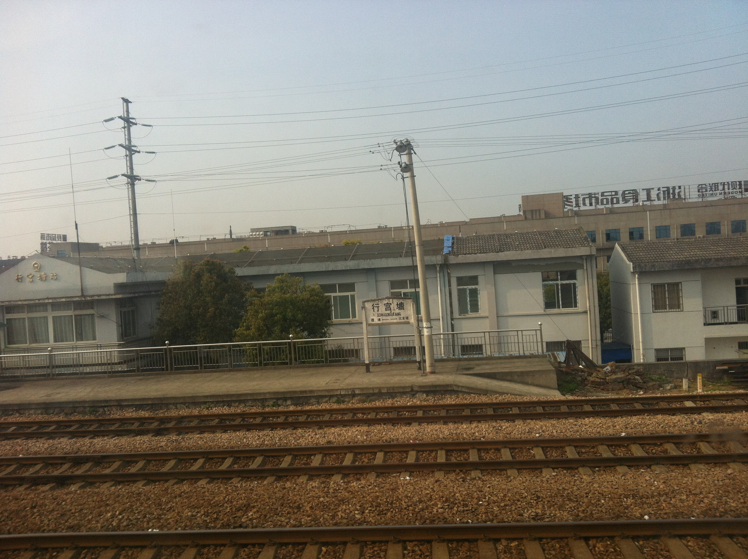 201503 Xinggongtang Railway Station